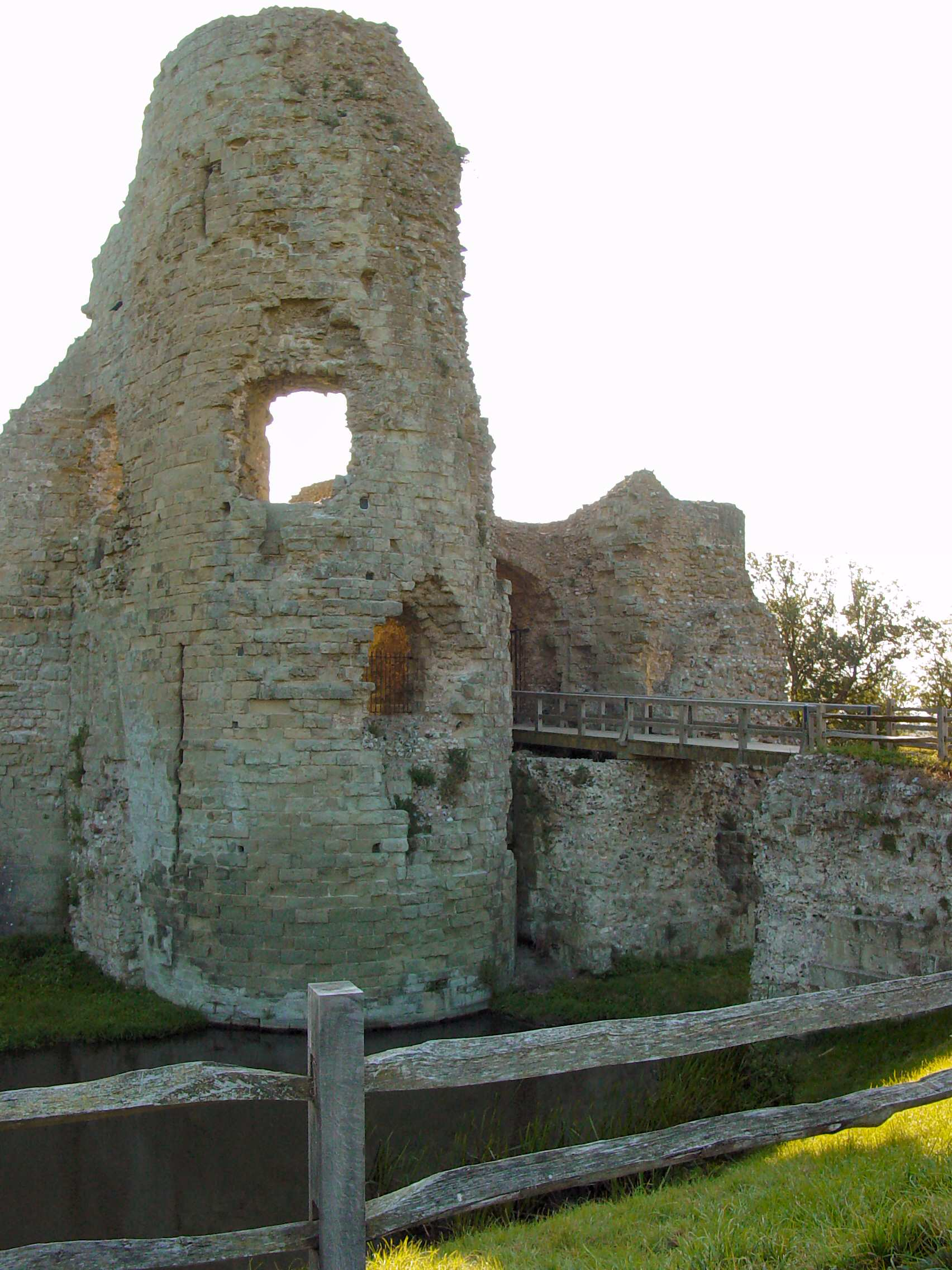 Photo taken and supplied by Brian Voon Yee Yap.